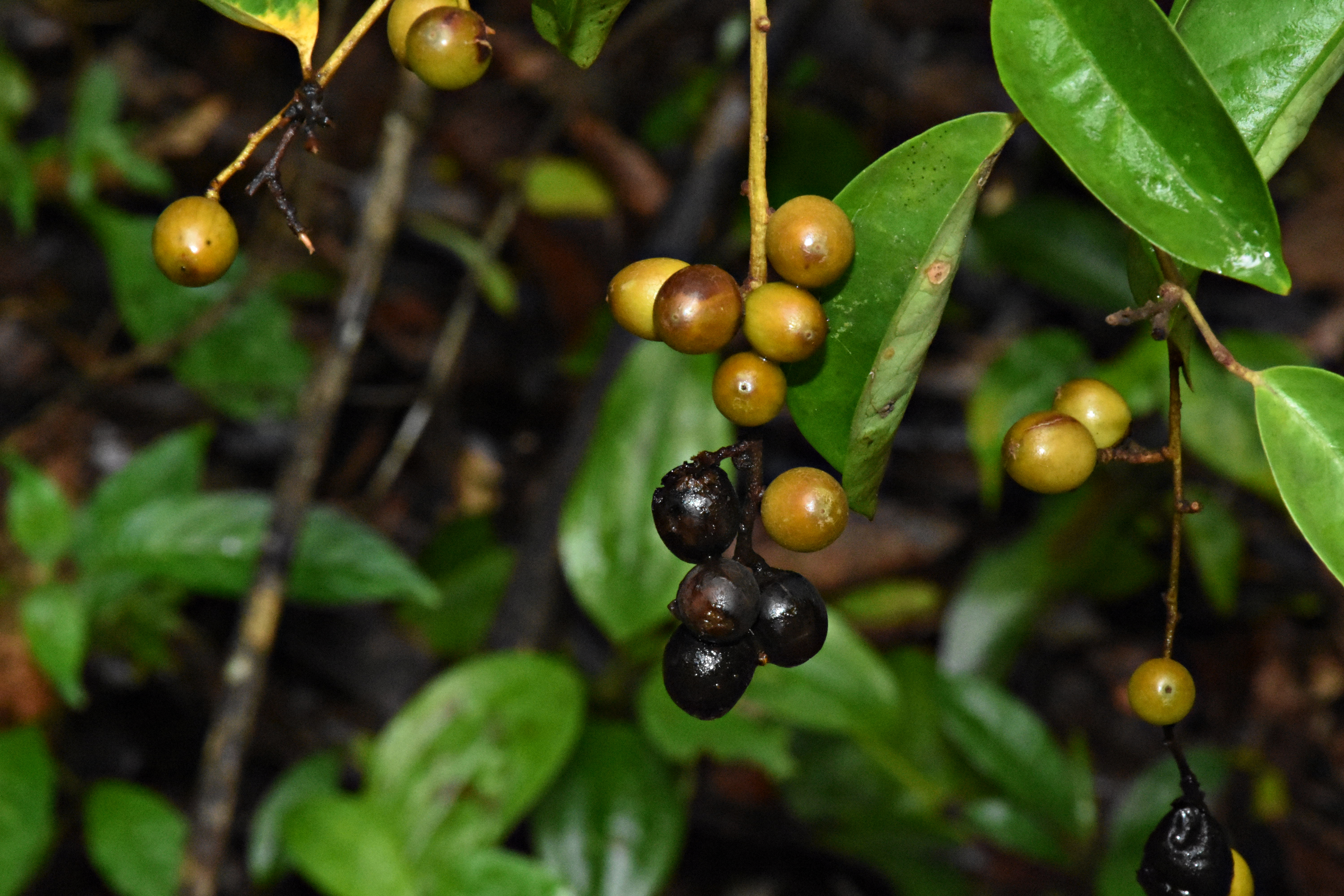 At Neeliyarkottam